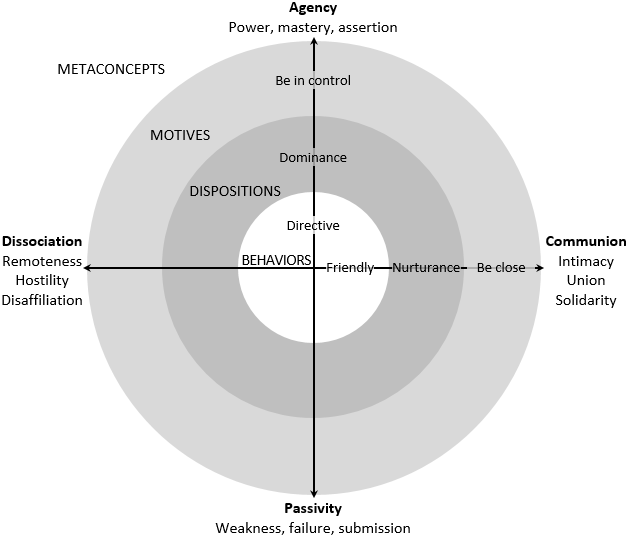 Agency and communion: metaconcepts for the integration of interpersonal motives, dispositions, and behaviors Based on: Aaron L. Pincus and Christopher J. Hopwood (2012): 'A Contemporary Interpersonal Model of Personality Pathology and Personality Disorder' in Thomas A. Widiger The Oxford Handbook of Personality Disorders, Oxford University Press